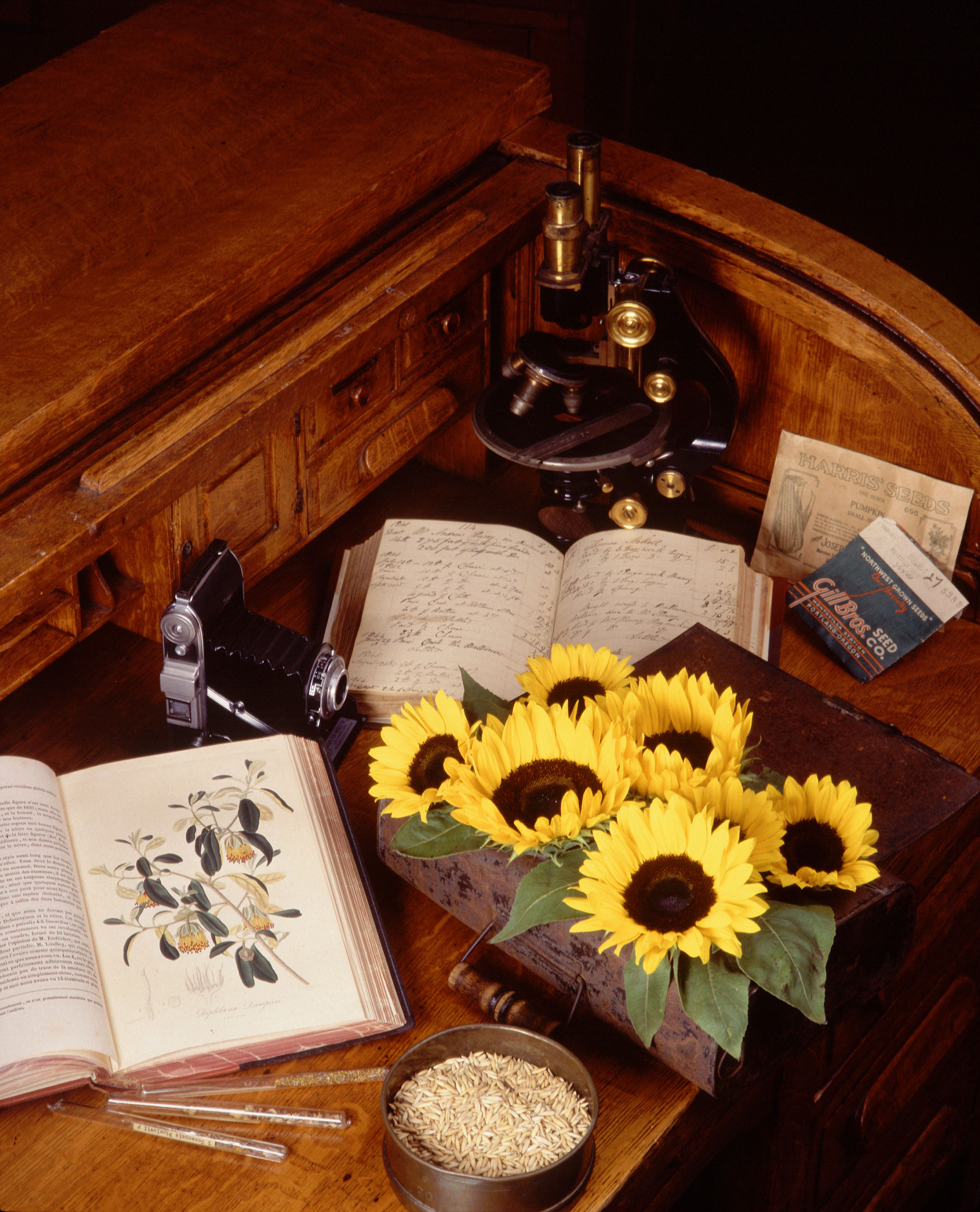 A historical collection of botanists tools.